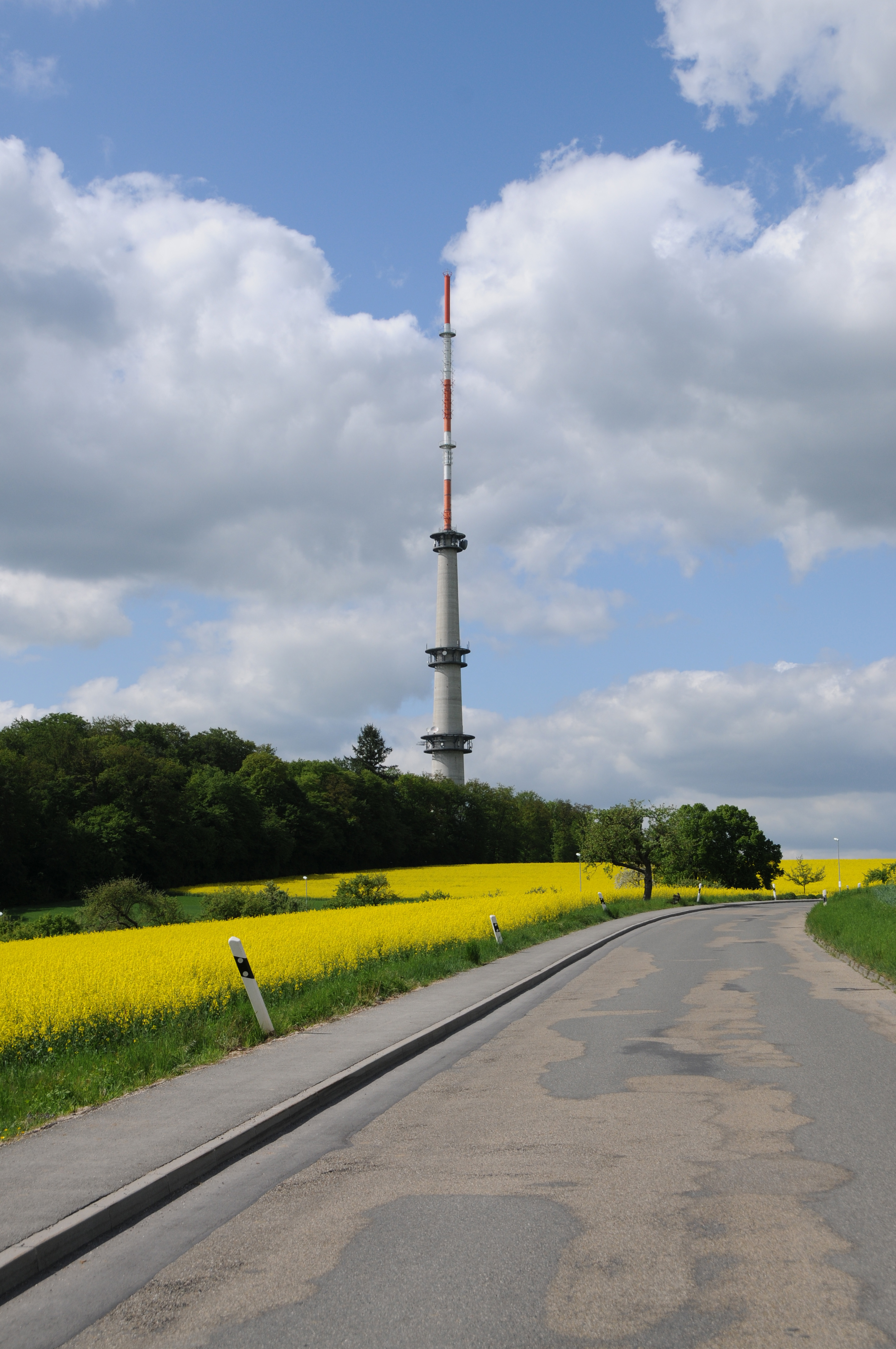 Bad Mergentheim, Löffelstelzen, broadcasting tower SWR